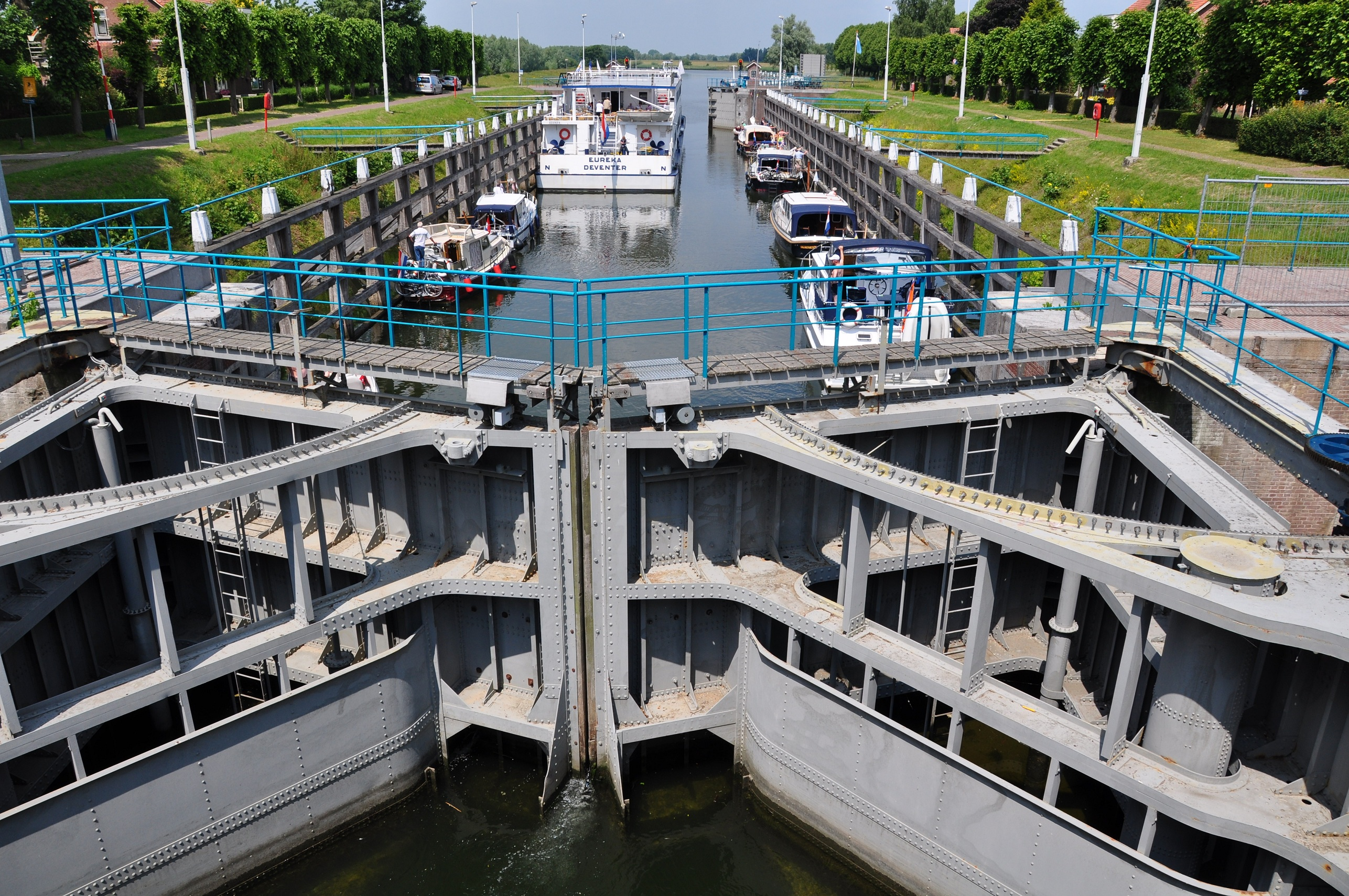 The Wilhelmina Locks in the river Meuse ("Afgedamde Maas") on the border between the provinces of Gelderland and North-Brabant (Netherlands). These locks connect the catchment areas of the Meuse and the Rhine (a stretch called "Merwede").